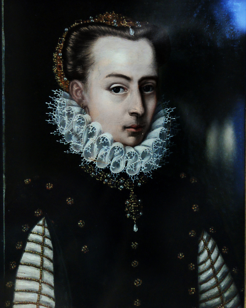 a duquesa